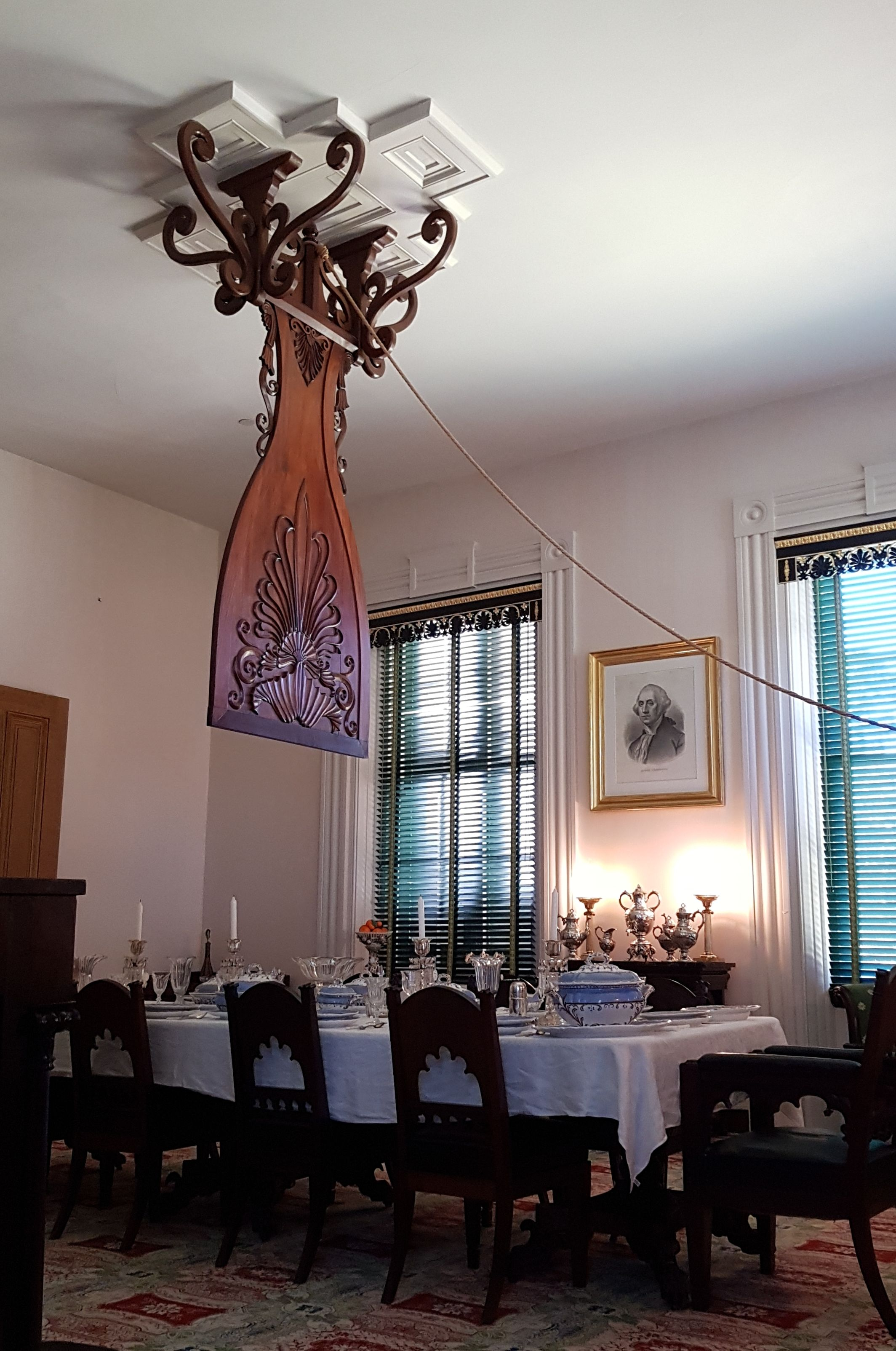 Punkah wooden panel in Melrose (Natchez, Mississippi).